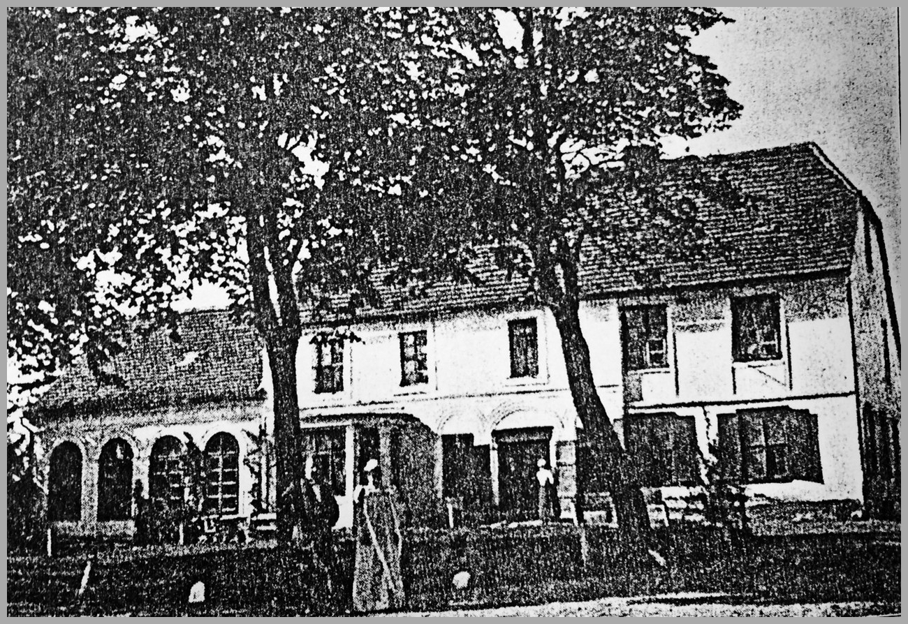 Wardyń Górny